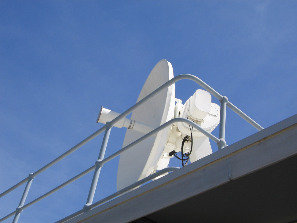 Darwin Airport weather radar (WF44 Radar). The radar is due for an upgrade in 2008 as part of the Bureau of Meteorology's Radar Network and Doppler Services Upgrade Project (RNDSUP)